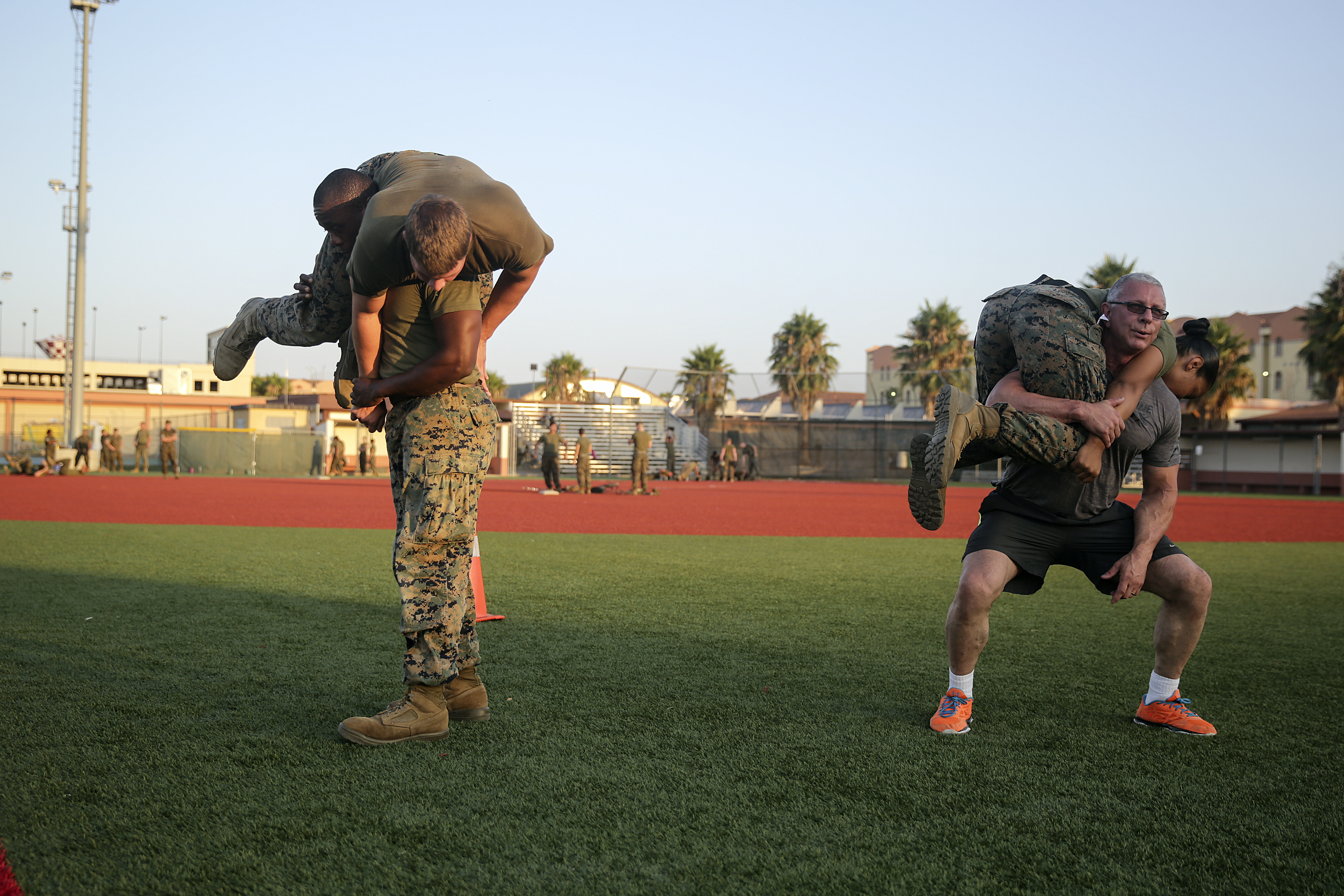 Celebrity Chef Robert Irvine and Marines with Special Purpose Marine Air-Ground Task Force Crisis Response-Africa conduct buddy squats during a physical training event at Naval Air Station Sigonella, Italy, July 28, 2016. Marines completed a circuit course with Irvine, which included upper and lower body workouts, Marine Corps Martial Arts Program techniques and laps around the baseball field. (U.S. Marine Corps photo by Cpl. Alexander Mitchell/released) Unit: U.S. Marine Corps Forces Europe and Africa